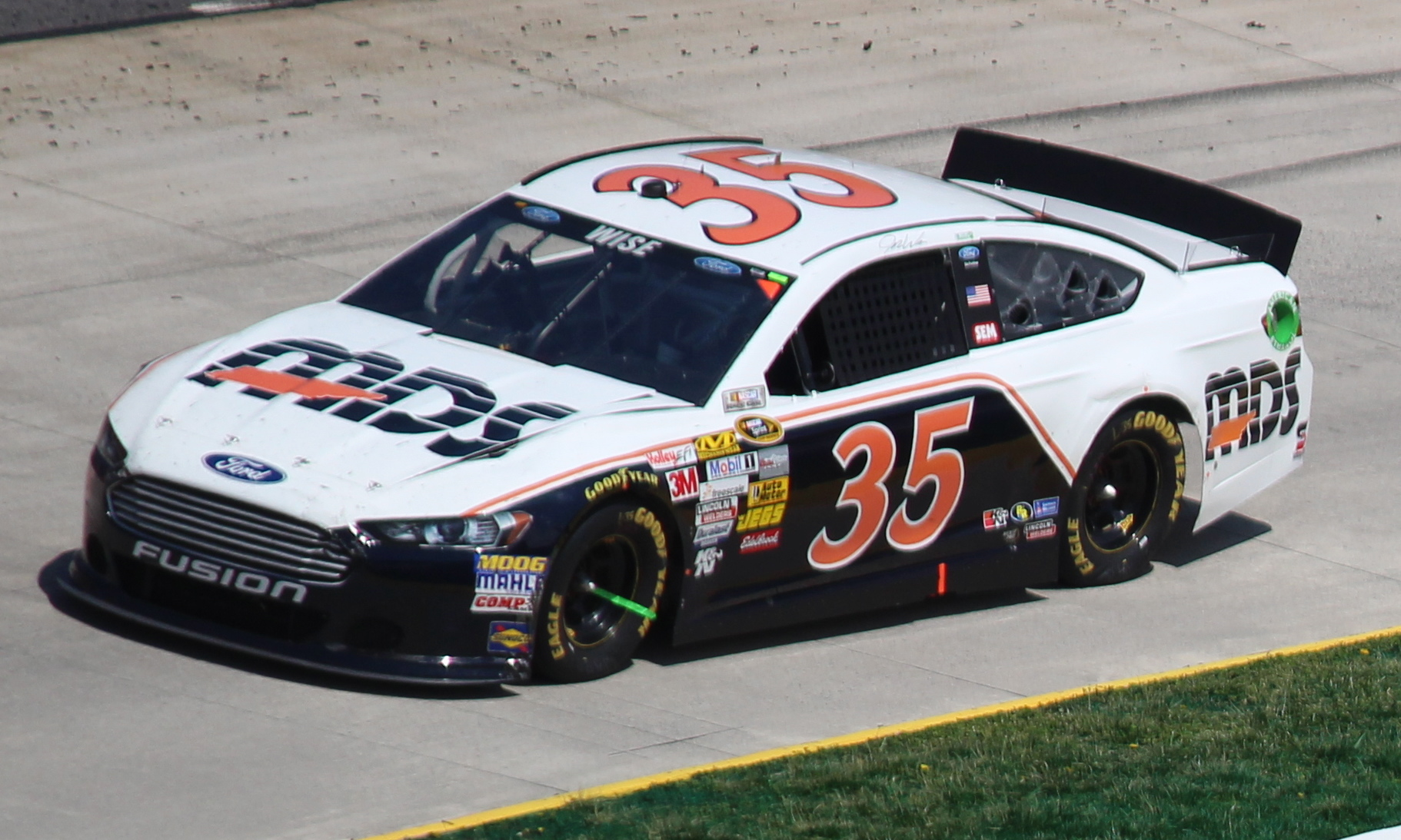 Josh Wise competes in the 2013 STP Gas Booster 500.